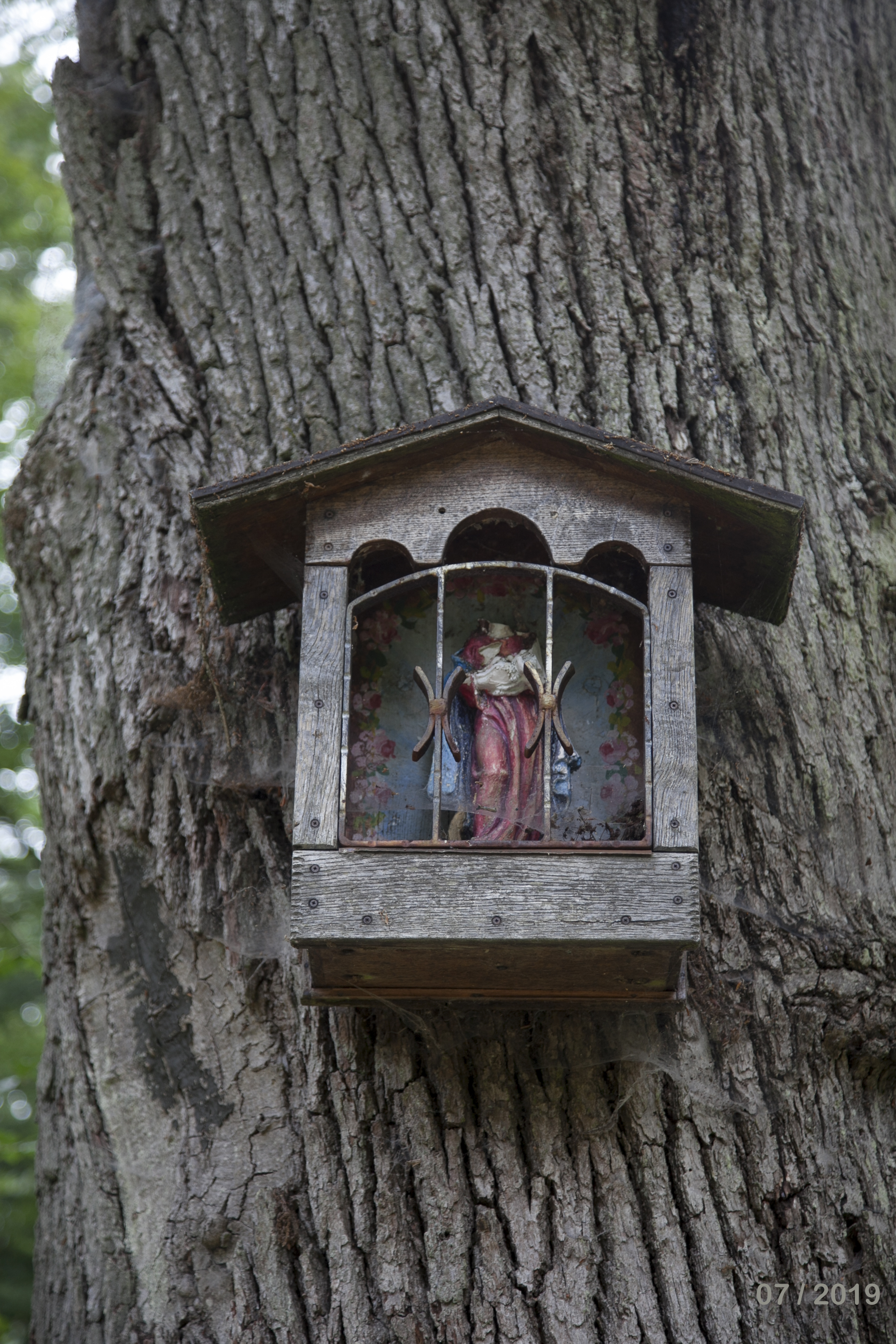 at oak trunk (Quercus spec.) the small [equal to] birdhouse with effigy of a knight's maiden (photo July 2019), Western Forest: Burglahr